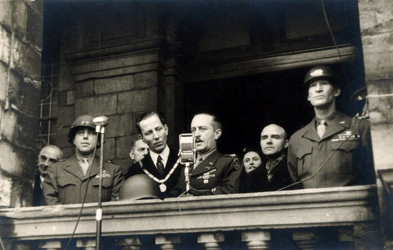 Farewell of the US Army 30th Division ("Old Hickory") at the town hall in Maastricht, Netherlands. The Old Hickory Division were on 13 and 14 September 1944 the liberators of Maastricht from Nazi German occupation. From left to right: Mr. Dr. W.G.A. van Sonsbeeck (governor of the Province of Limburg), Major General Hobbs (commander of the Old Hickory Division), Mr. L.R. Schreinemacher (alderman of Maastricht), Mr. W. Baron Michiels van Kessenich (mayor of Maastricht), Colonel Walter Morris Johnson (commander of the 117th Regiment), Mr. P.M.J.L. Janssen (alderman) and Lieutenant General William Hood Simpson (commander of the 9th US Army). Photo collection of RHCL, Maastricht, ref. nr. GAM 24511.